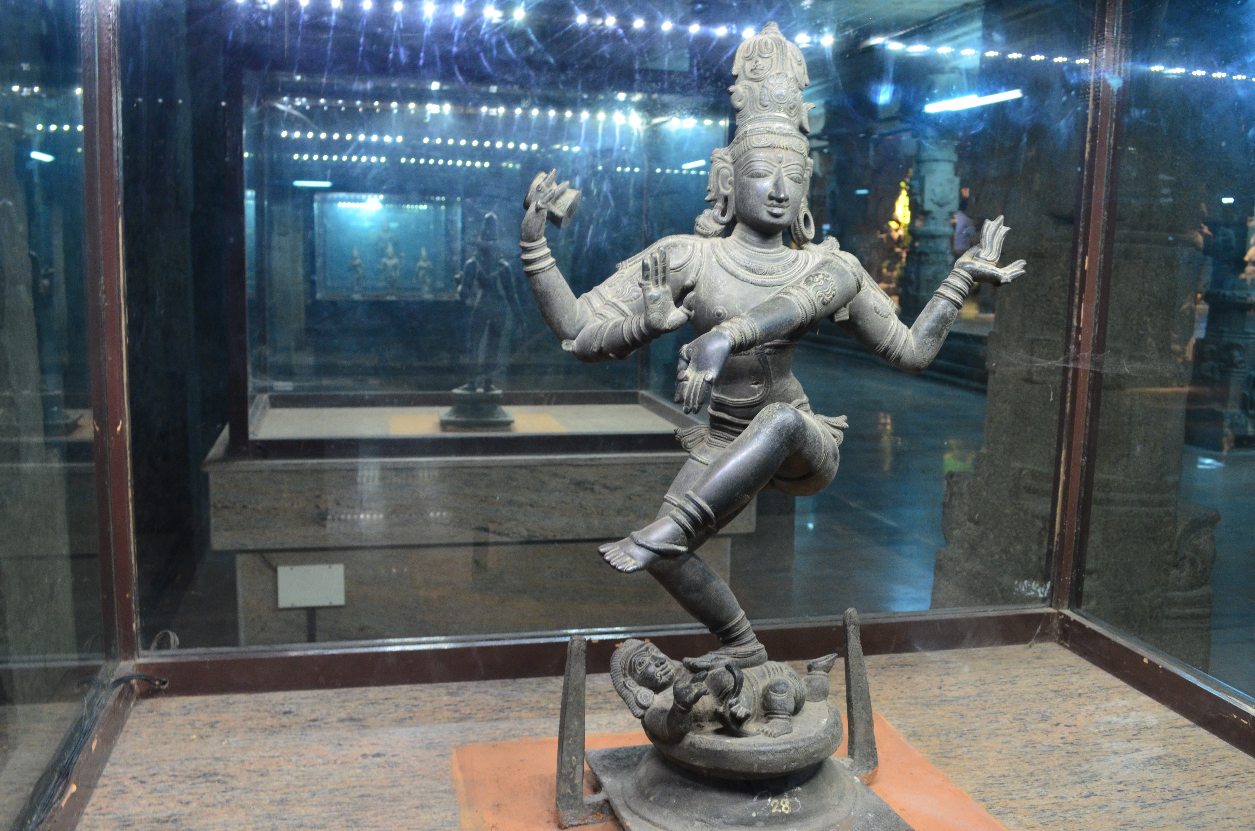 Madurai Meenakshi Amman Temple